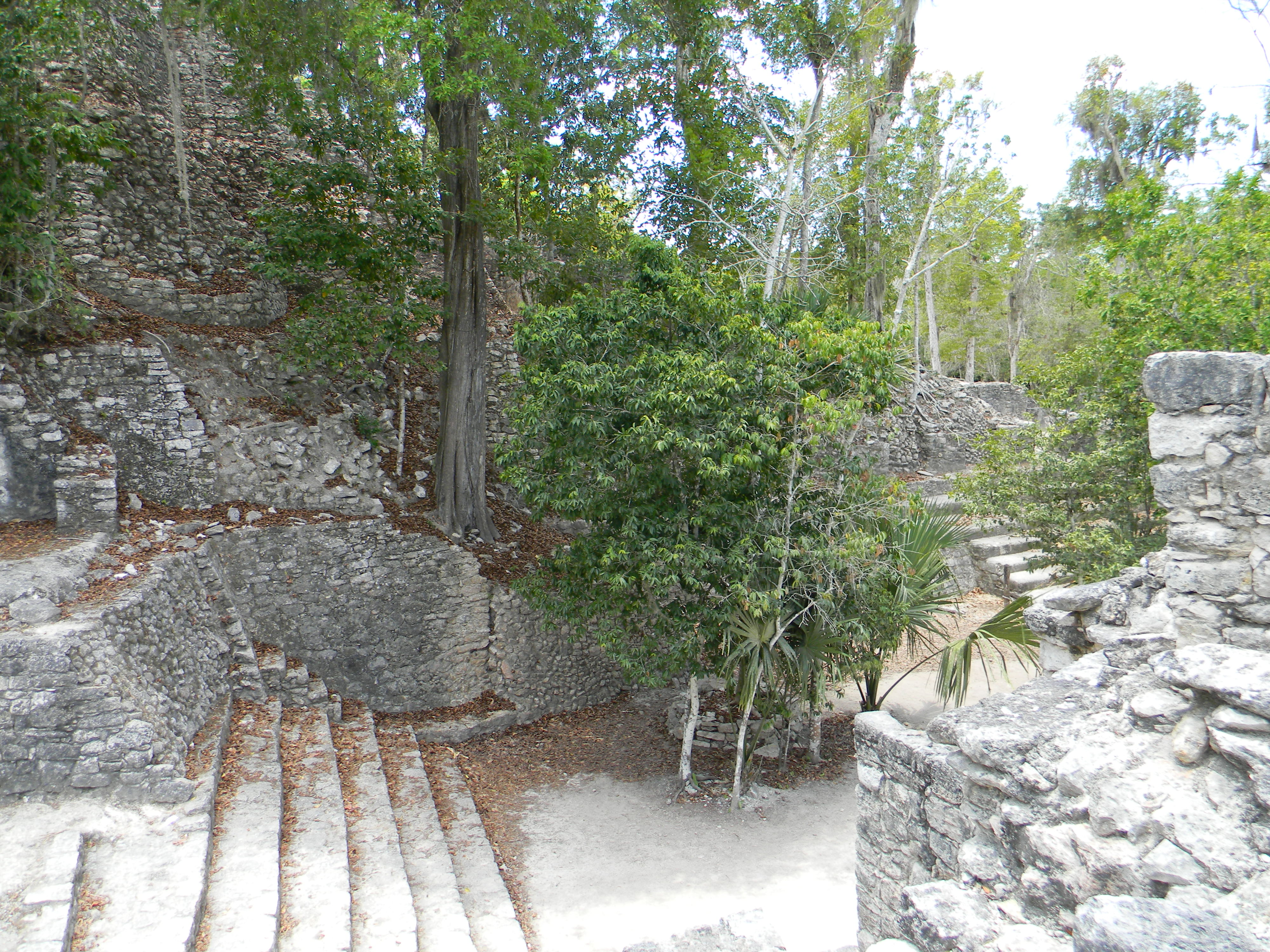 Cobá - Pyramid Iglesia, archaeological site of Coba